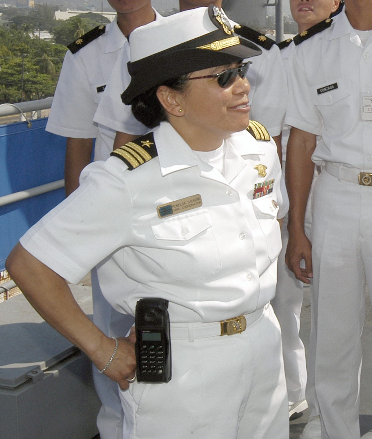 Lt. Cmdr. Romelda Sadiarin gives a tour of USS Coronado (AGF 11) to students from the Philippine Navy's Naval Education and Training Command. Coronado arrived for a scheduled port visit. The port visit gives the more than 450 Sailors, civilian mariners and Seventh Fleet staff members embarked aboard Coronado a chance to experience the unique culture of the Philippines, sightsee, and participate in community service projects. The ship is serving as the temporary command ship for U.S. Seventh Fleet while USS Blue Ridge (LCC 19) is in a scheduled dry dock maintenance period. Besides serving as a temporary command ship, Coronado is also experimenting with a unique manning concept. The crew is made up of civilian mariners from the Military Sealift Command (MSC) and a small group of Sailors, designed to replace the 481 Sailors normally assigned to Coronado. The combined MSC/Navy crew of 263, and some augmentees from the Seventh Fleet flagship Blue Ridge, support the embarked Seventh Fleet staff.